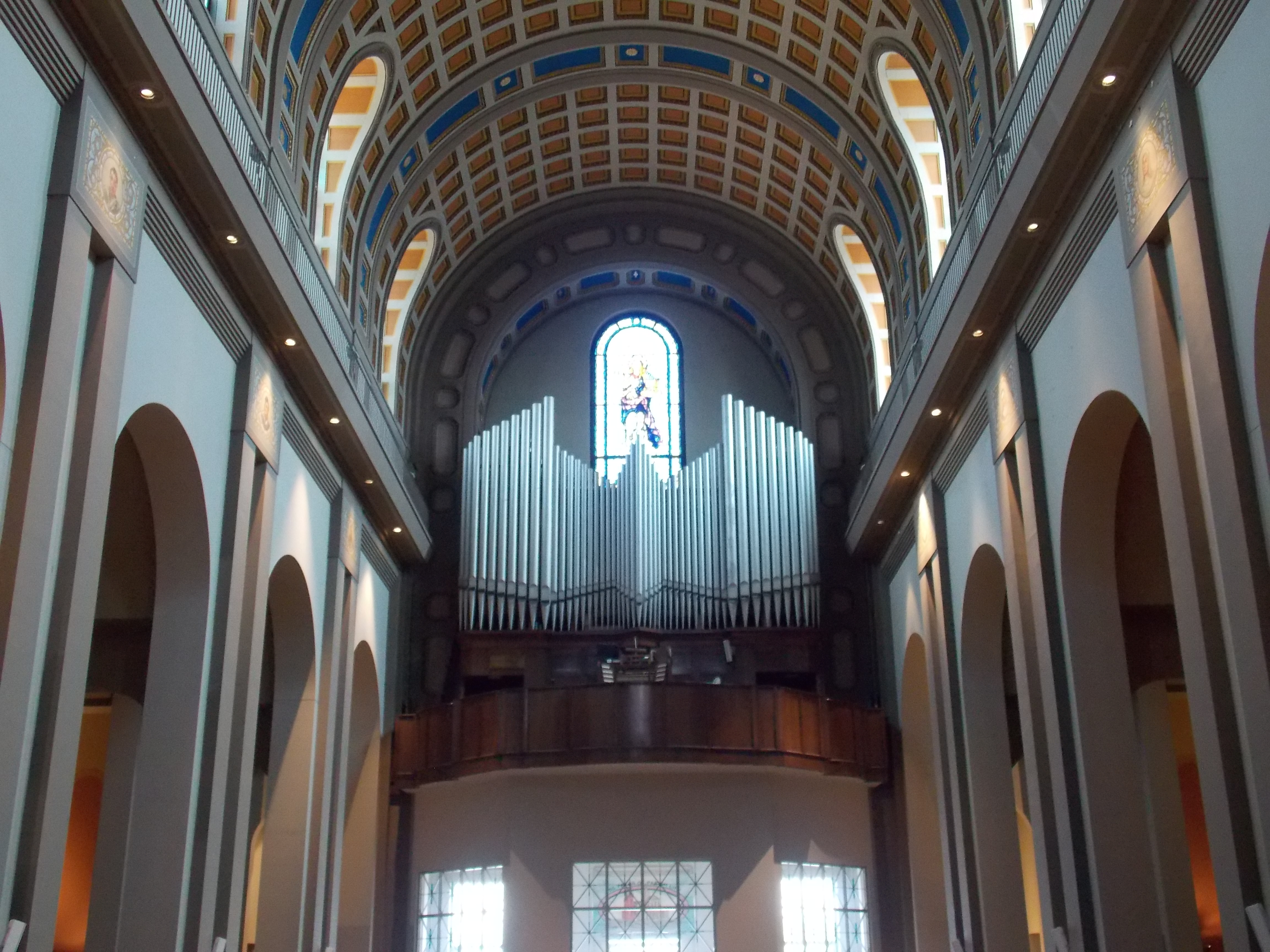 The gallery and pipe organ in the Cathedral of the Blessed Sacrament, Altoona, Pennsylvania.